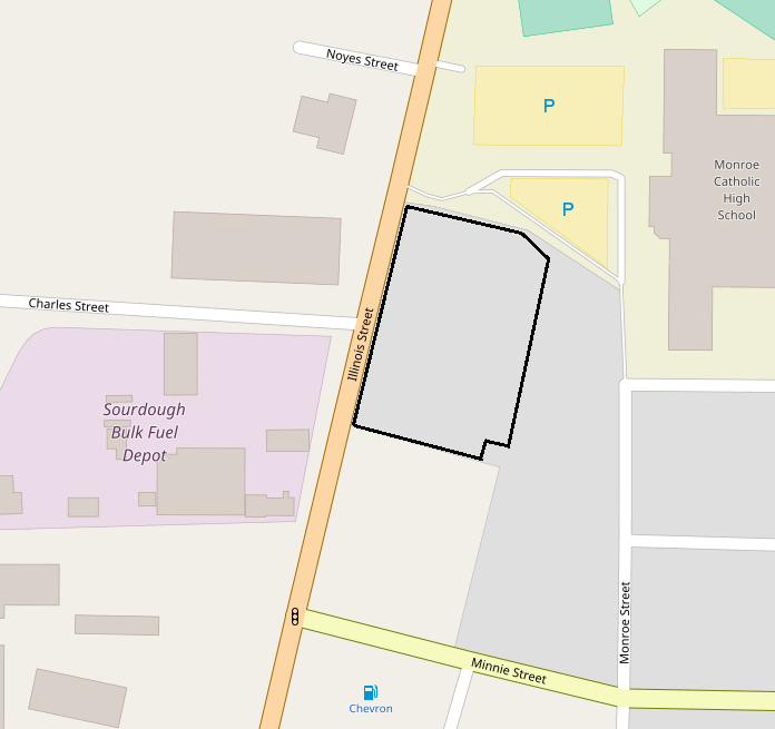 Map showing the boundaries of the Fairbanks Exploration Company Housing in Fairbanks, Alaska, United States. The historic district is listed on the National Register of Historic Places. Boundaries are derived from the map attached to the district's National Register nomination form.